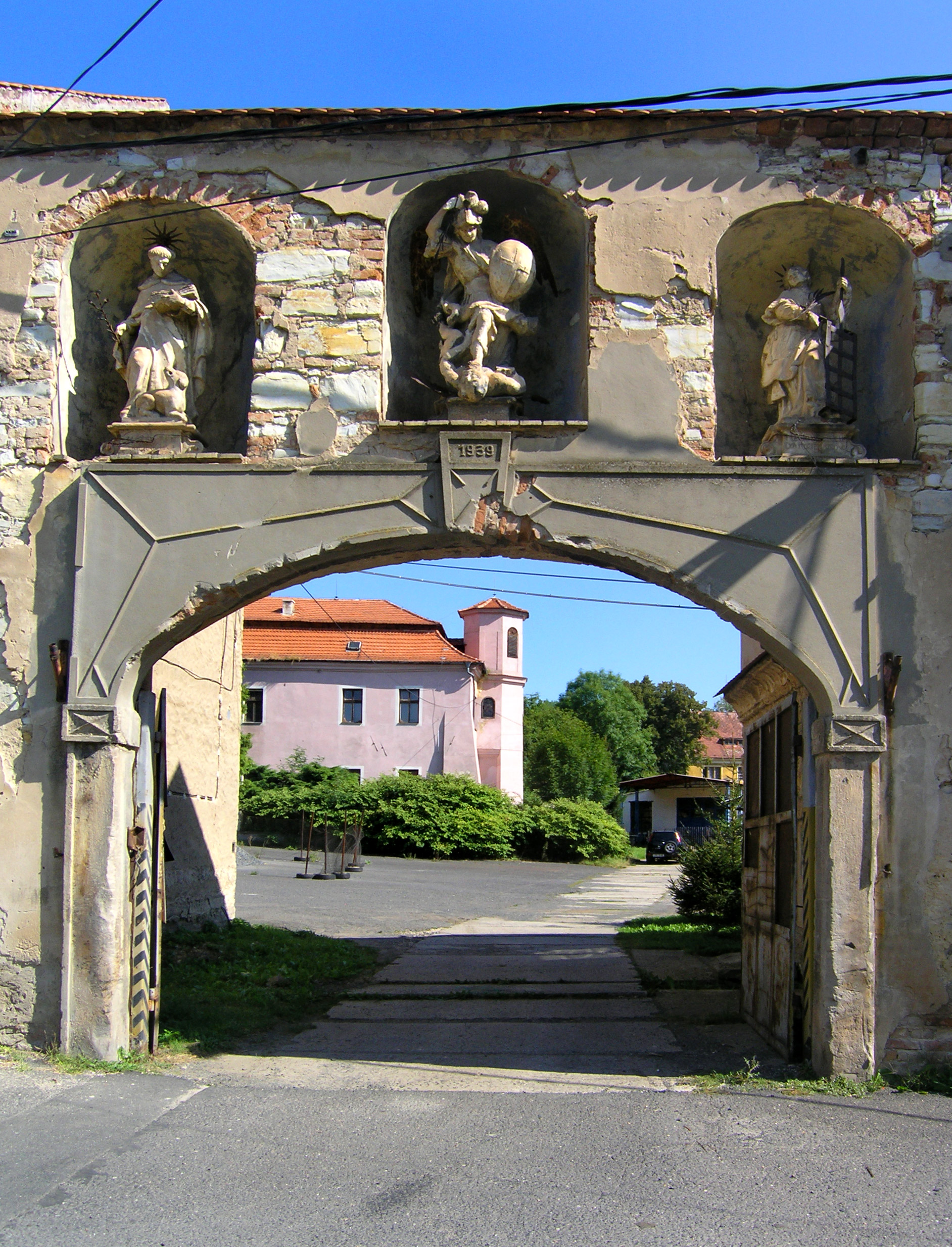 Velký Újezd castle in Býčkovice village, Czech Republic